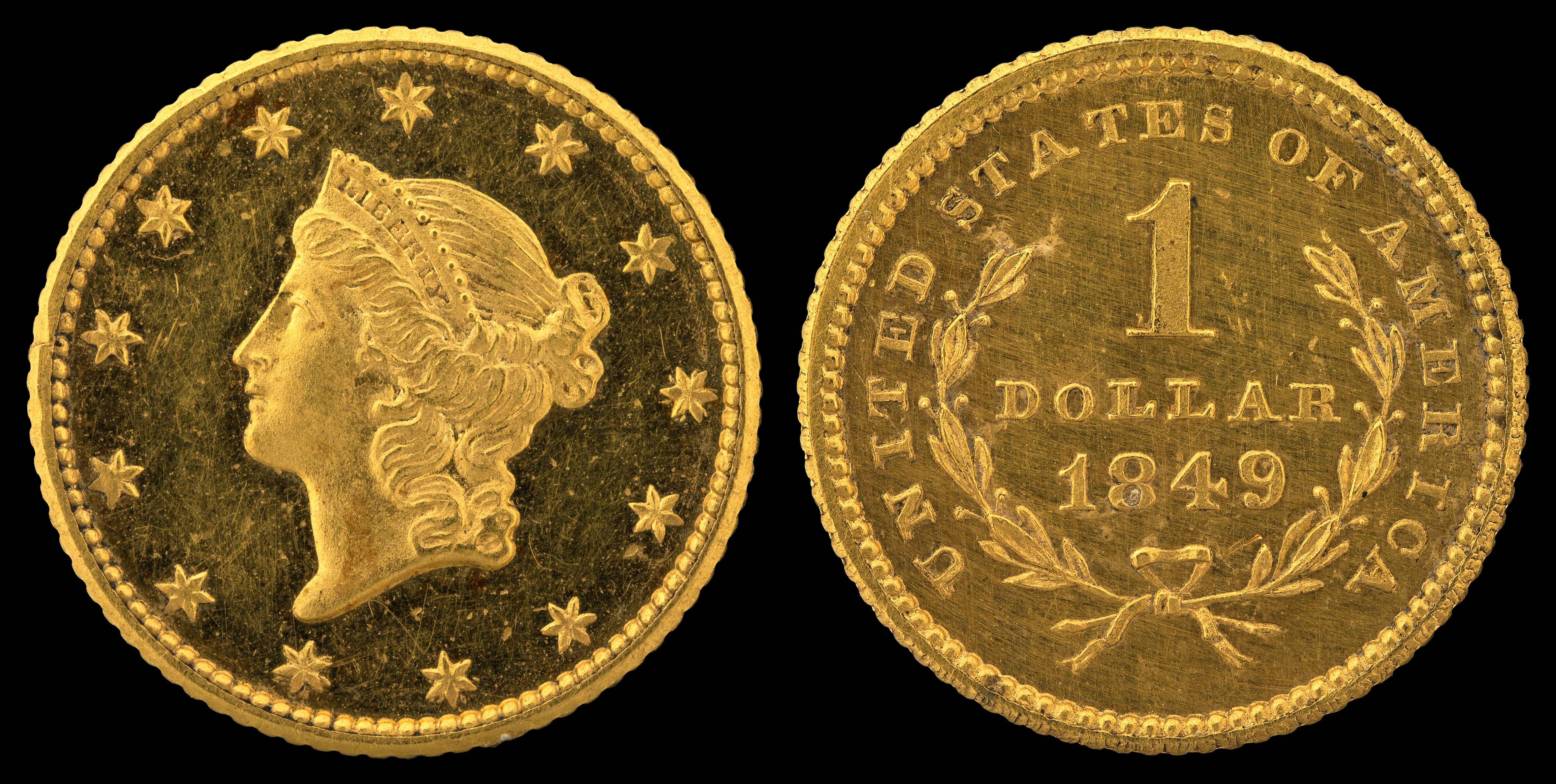 1849-G$1-Liberty head (Ty1)JN2015-6708-09